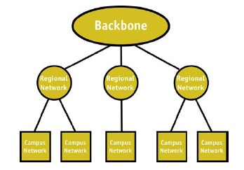 NSFNET Three Tiered Network Architecture U.S. federal government diagram